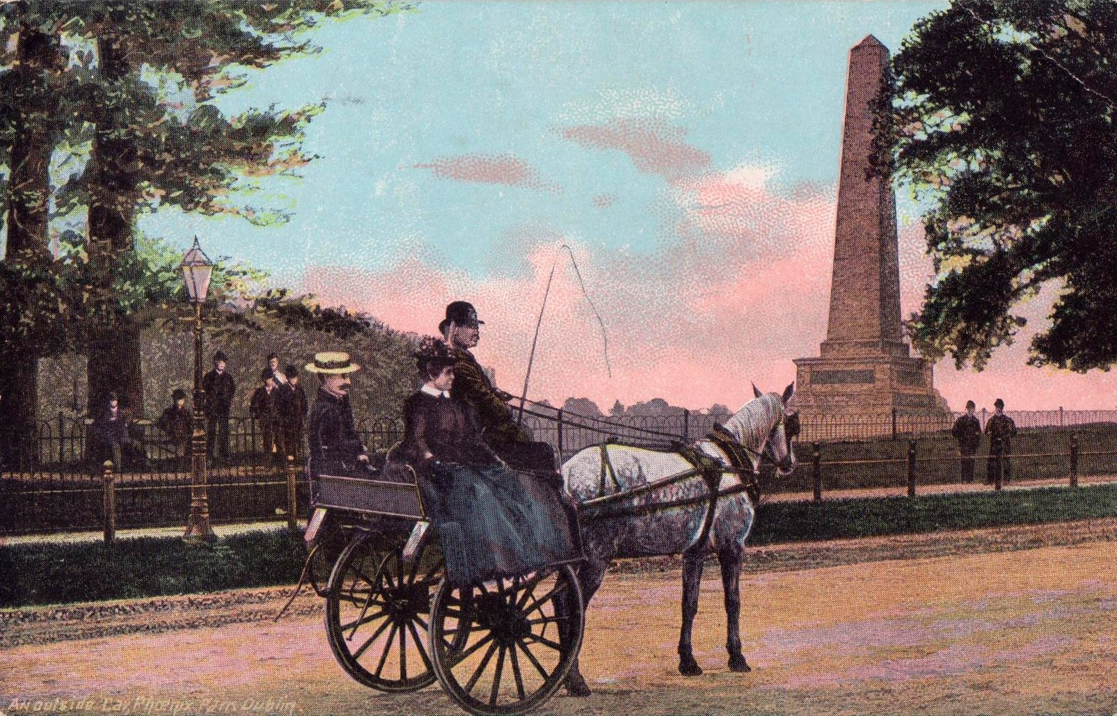 Dublin. Phoenix Park. Outside car (Jaunting car). Postcard, c. 1905. Publisher: Chas. L. Reis & Co. Glasgow, Dublin, Belfast.